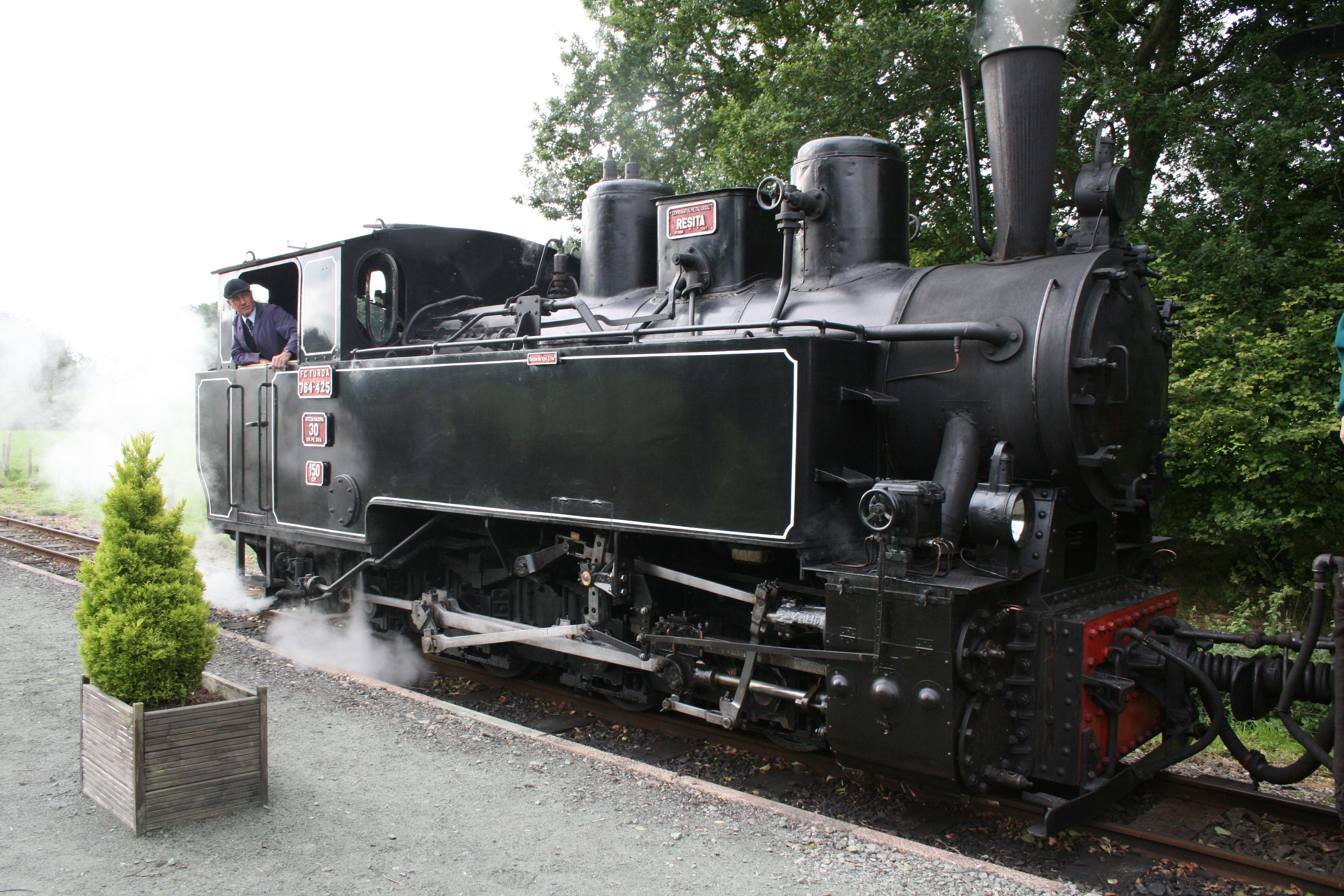 Romanian class 764 engine, now numbered "19" on the Welshpool and Llanfair Light Railway.